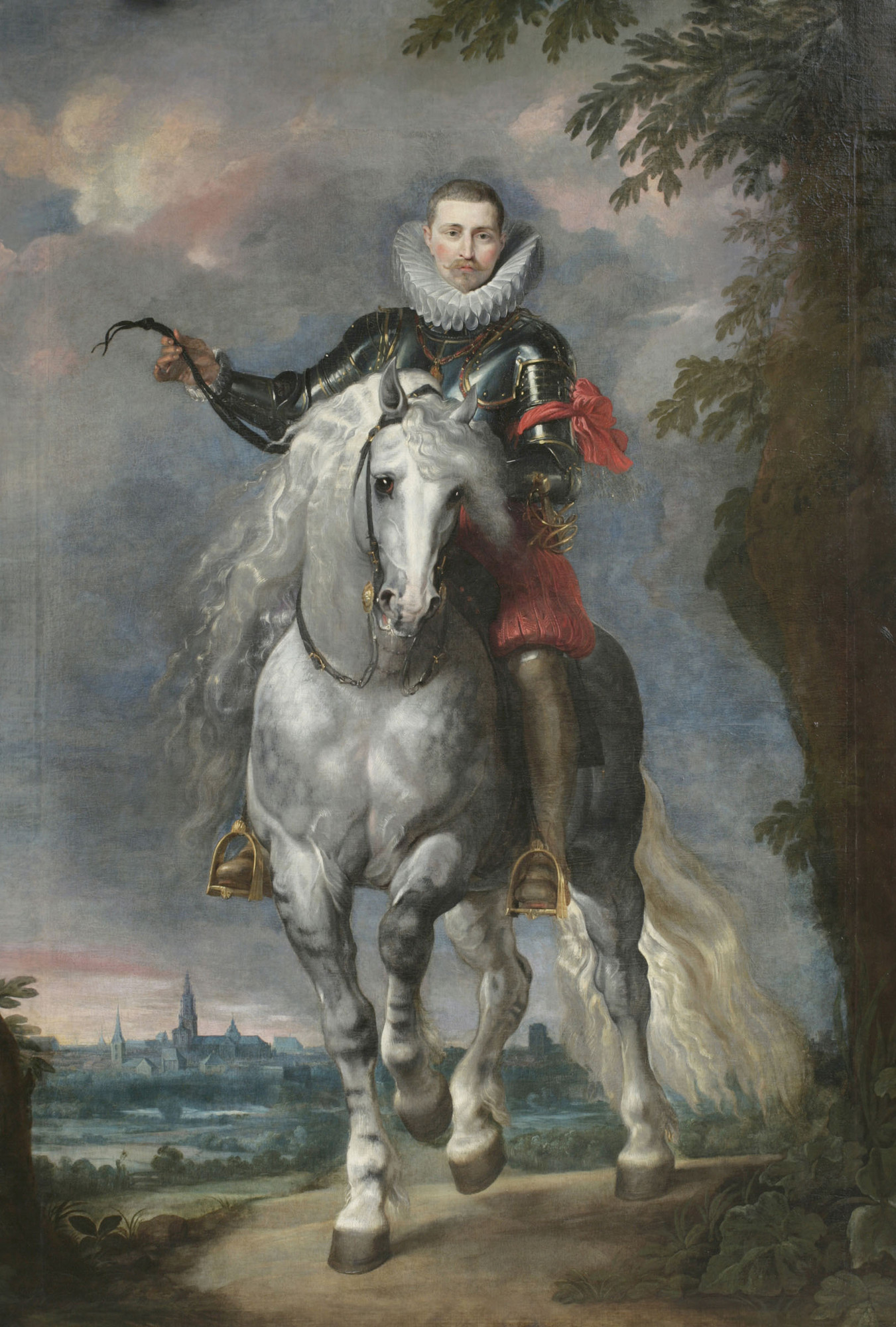 The I Count of Oliva de Plasencia, D. Rodrigo Calderón de Aranda